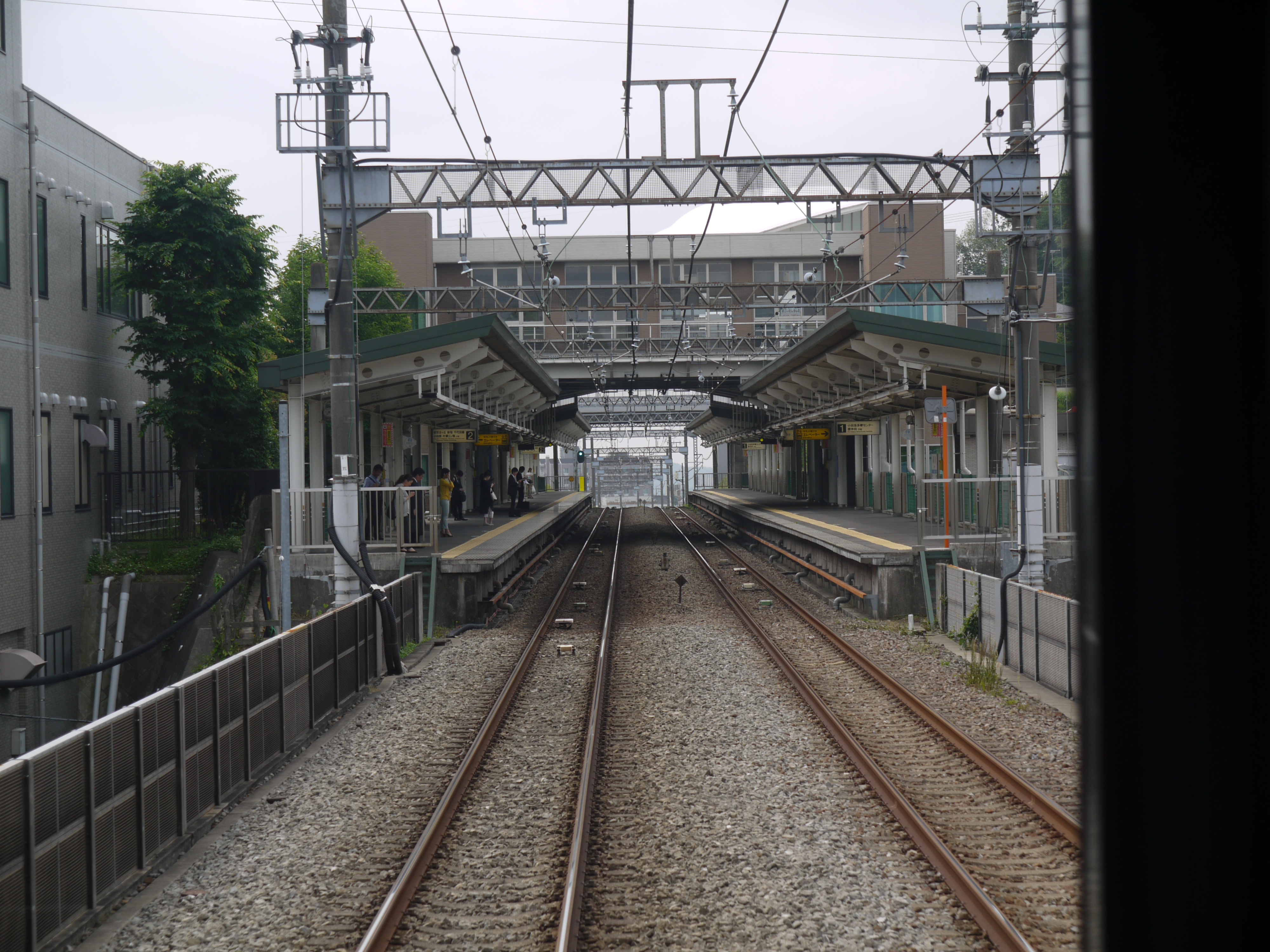 Odakyu Kurokawa station Platforms taken from an inbound train